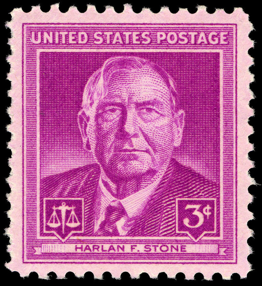 Harlan F. Stone 3-cent 1948 issue U.S. stamp.